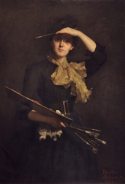 Self-portrait with palette